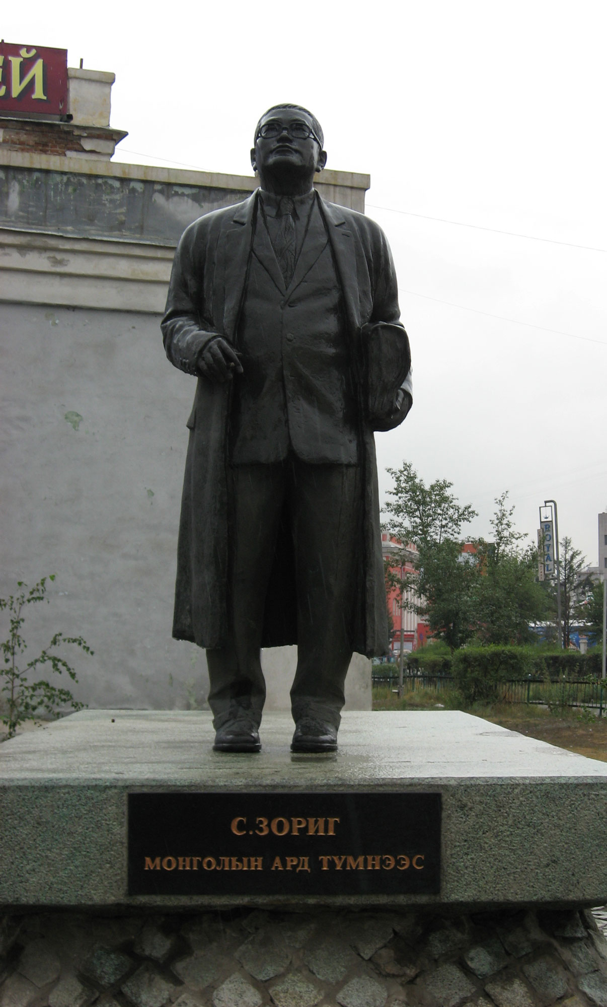 Zorig Memorial in Ulan-Bator